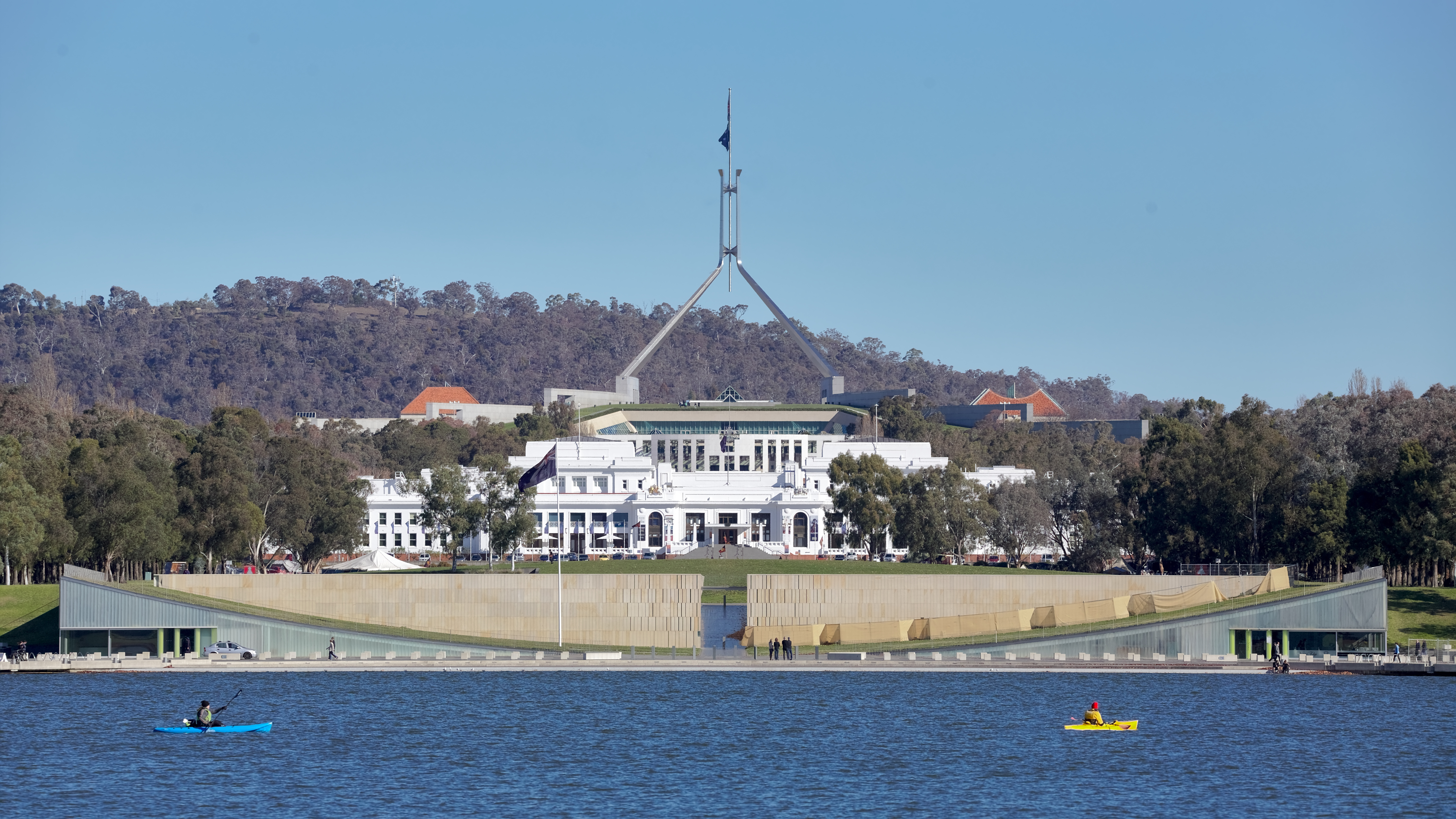 View from Lake Burley Griffin, in Canberra Australia. The older white building is Old Parliament House; the building behind it is the new Parliament House.